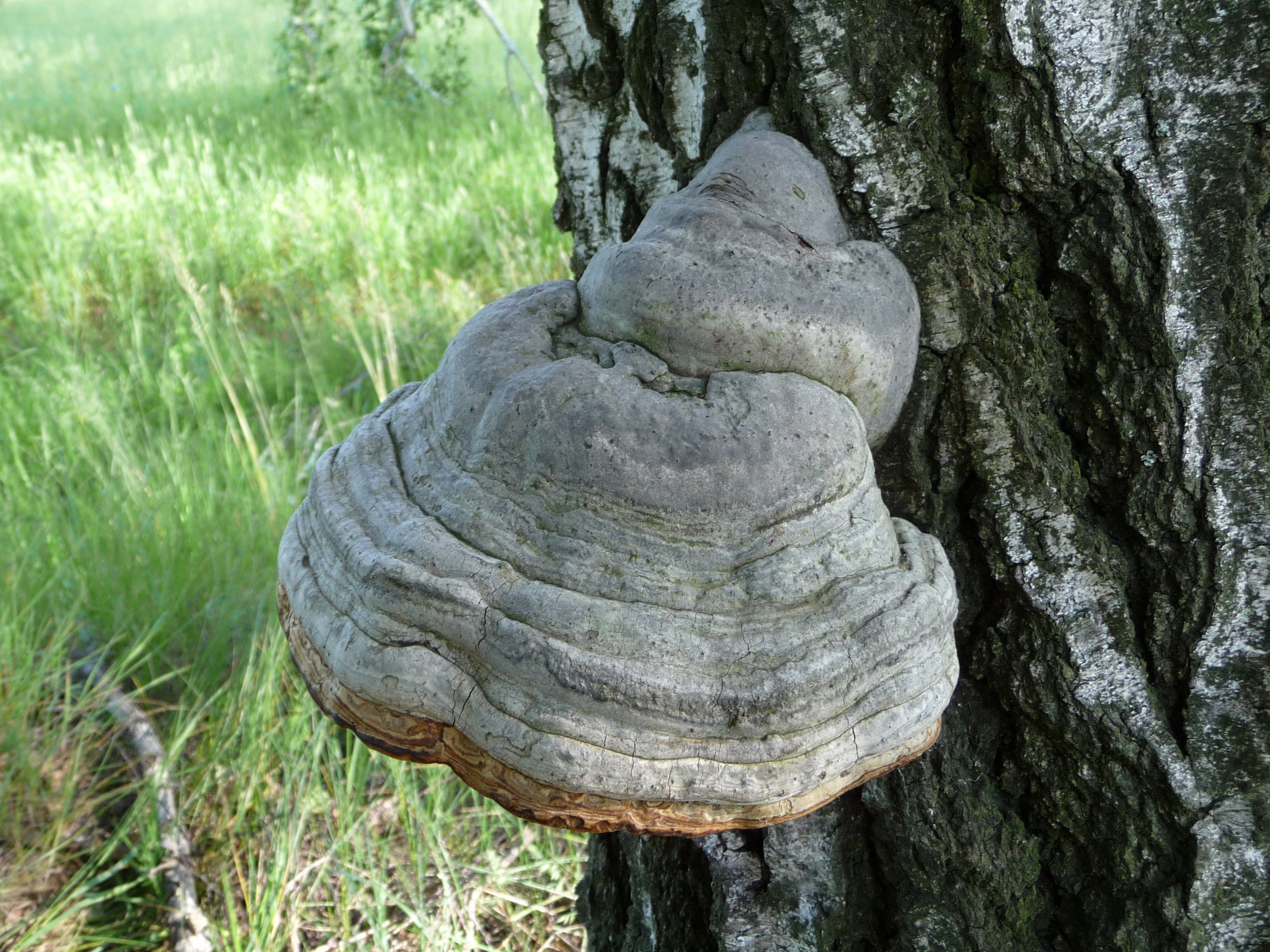 Tinder fungus (Fomes fomentarius) on a dead birch (Betula). Approximately 10 years old mushroom. Ukraine.